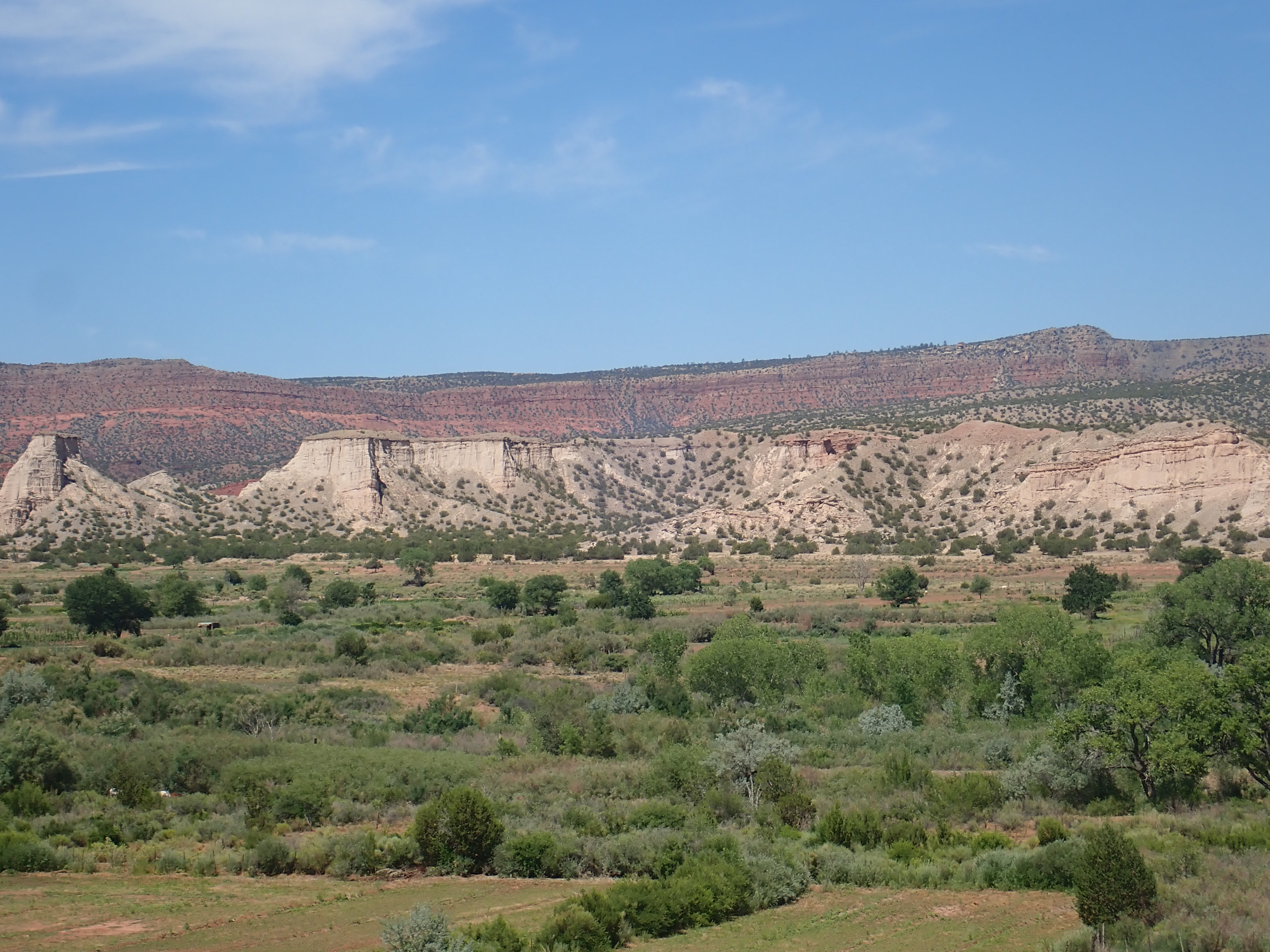 This image shows badlands eroded out of the Zia Formation northwest of Jemez Pueblo, New Mexico, USA. The Zia Formation is a Miocene formation deposited as early rift fill sediments of the Rio Grande rift. The soft white sandstone beds of the formation are capped by more resistant calicified river gravels of the ancestral Jemez River. On the skyline behind the badlands is Mesa Chuchilla, underlain by Permian and Triassic red bed formations.